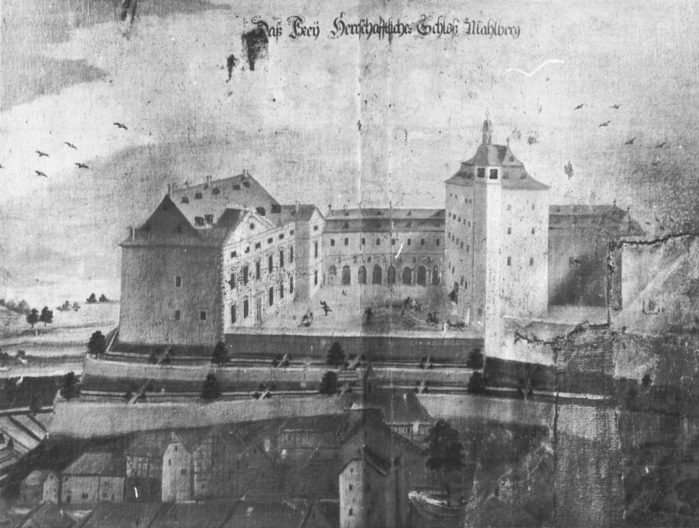 Painting of Schloss Malberg